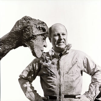 Publicity photo for Roseland. Sculpture on left is Sun Chariot parade sculpture.